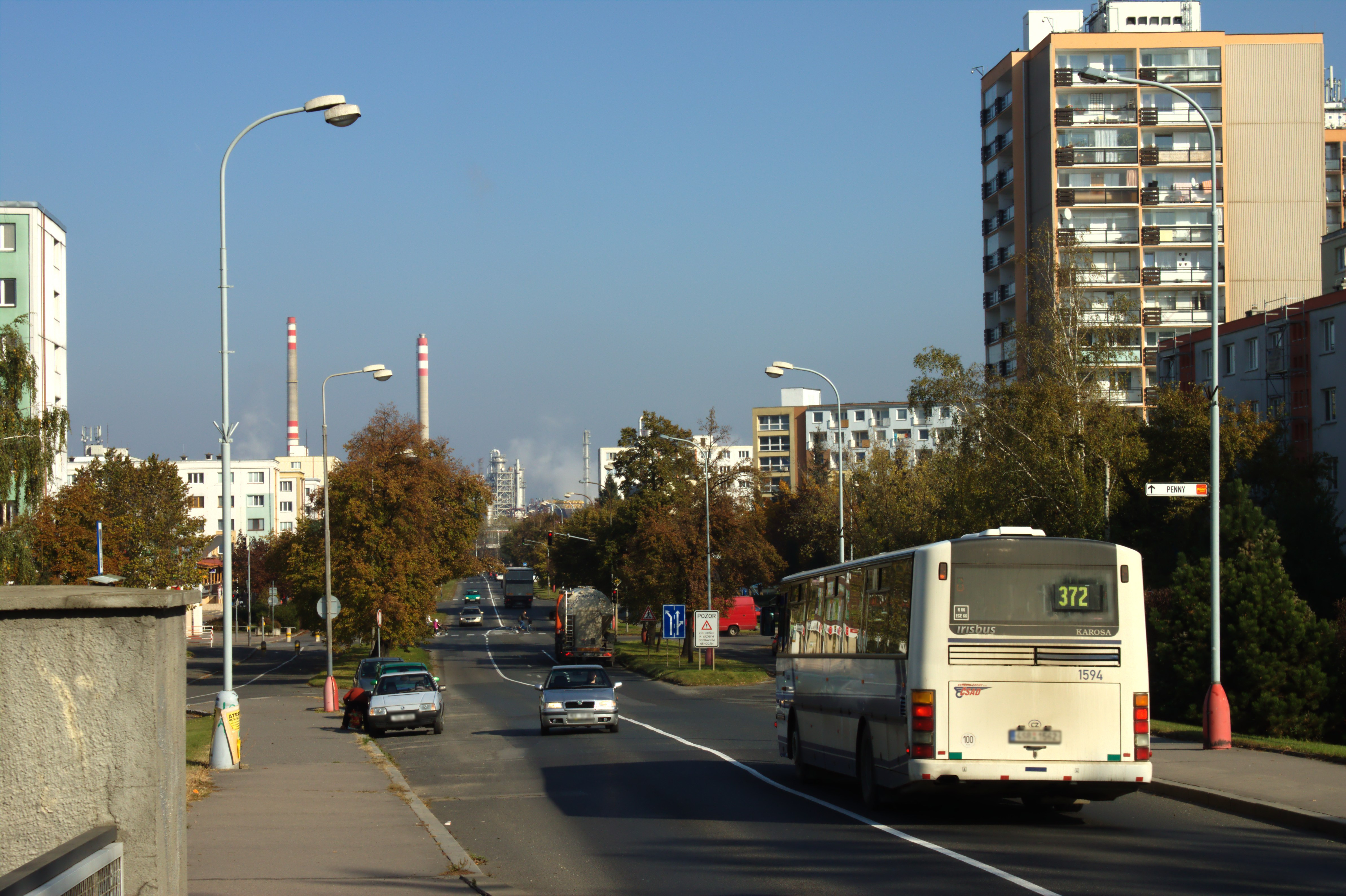 A housing esteate seen from the T. G. Masaryka bridge, Kralupy nad Vltavou, Mostní street.